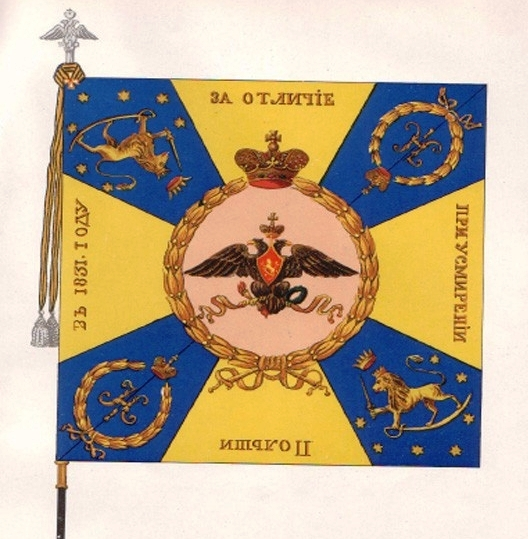 Colour of the Finnish Guards' Rifle Battalion from the 19th century